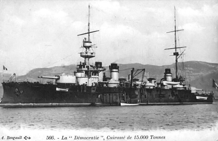 French battleship Démocratie (1904)